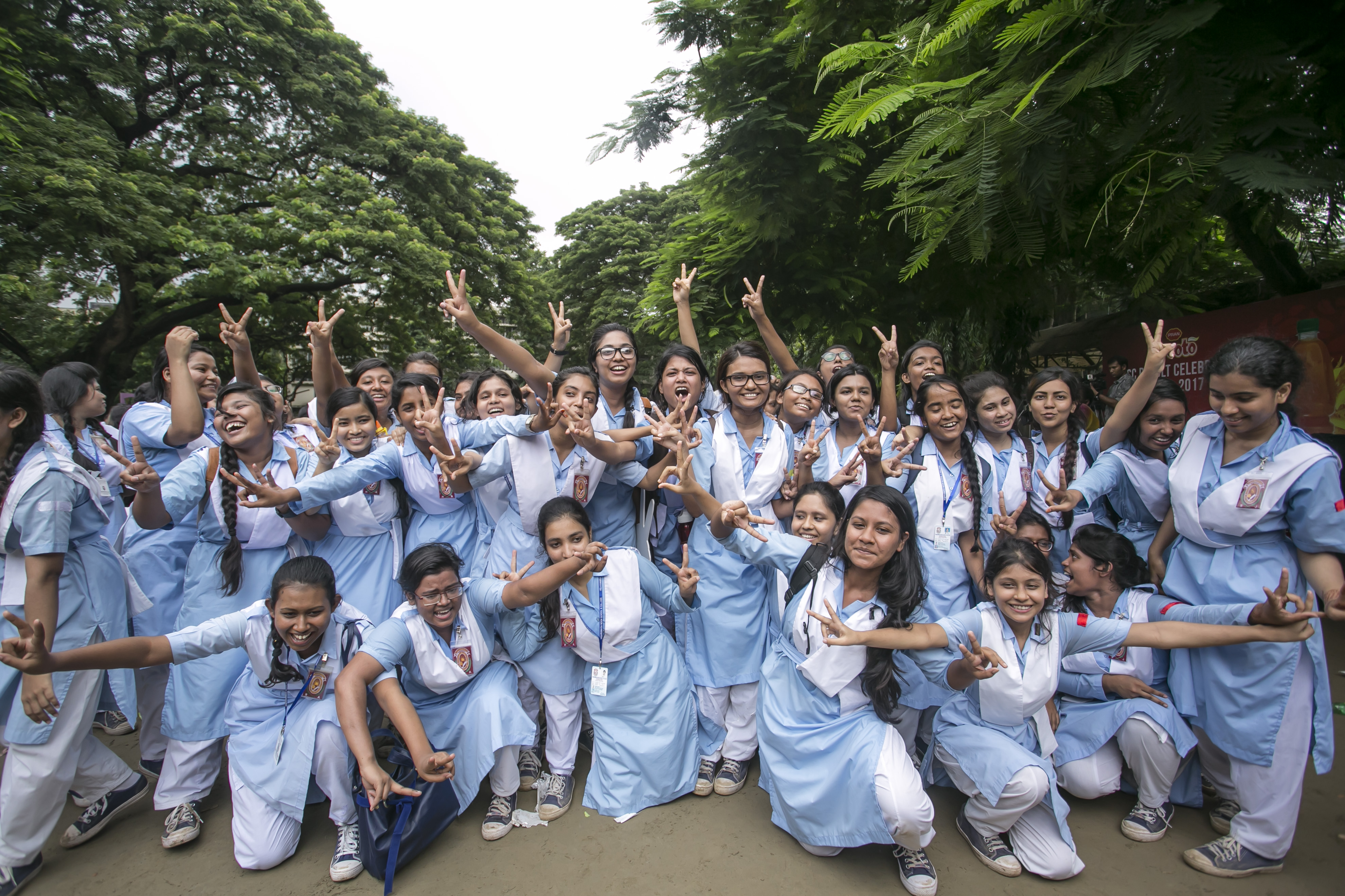 Viqarunnisa noon school & college Students moment